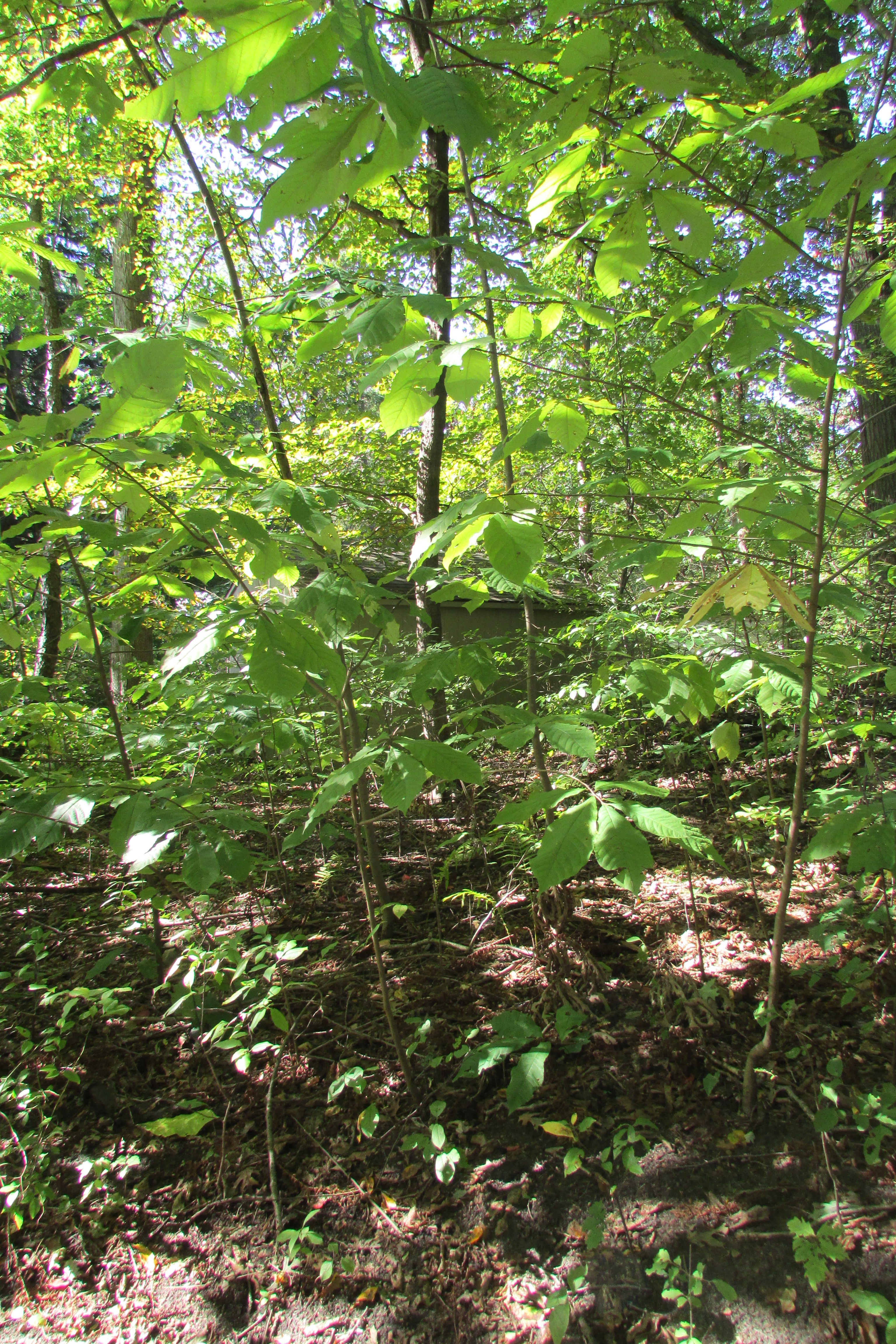 Pignut Hickory (Carya glabra), Friendship Botanic Gardens, Michigan City, Indiana.